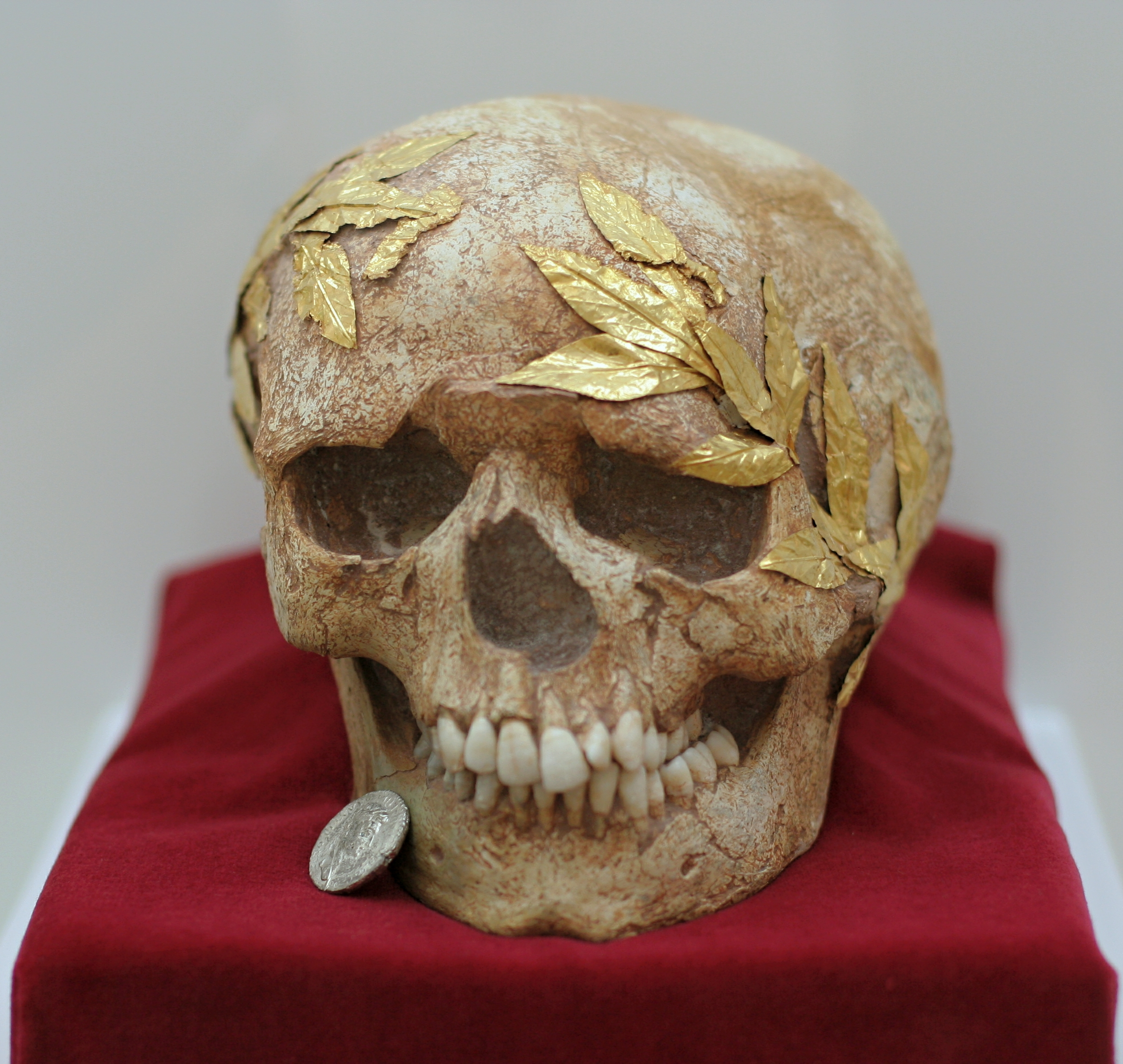 Skull of a young athlete (?) with a gold wreath and a silver coin for Charon (coin of Polyrrhenia town, from the times of Emperor Tiberius). Roman necropolis in Lato near Kamara (Ag. Nikolaos), 1st century AD. Archaeological Museum of Agios Nikolaos